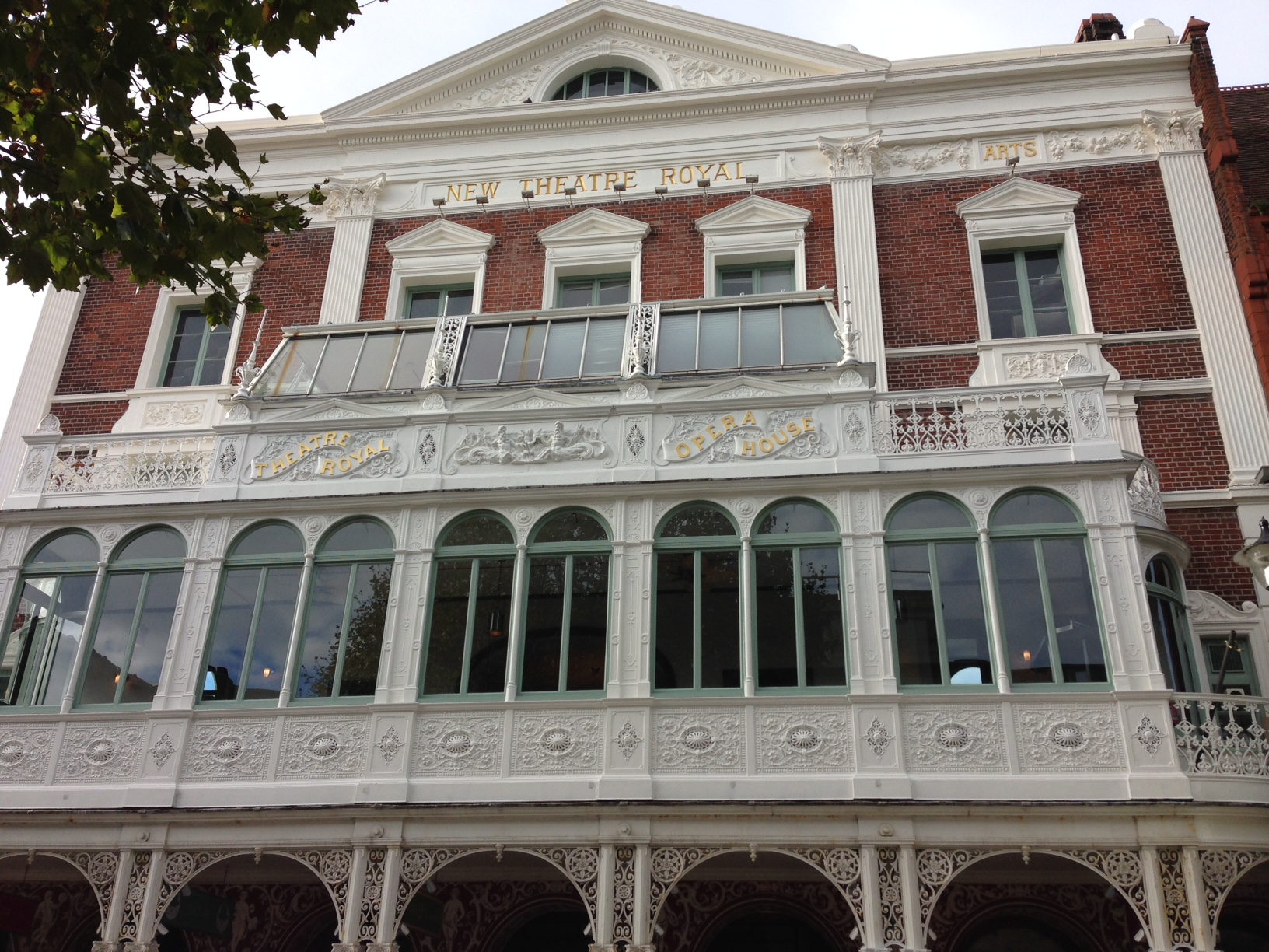 A view of the facade from Guildhall Walk.